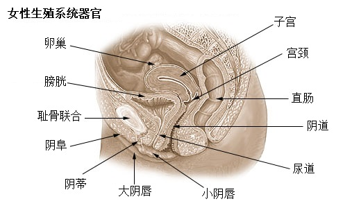 The organs of the female reproductive system.